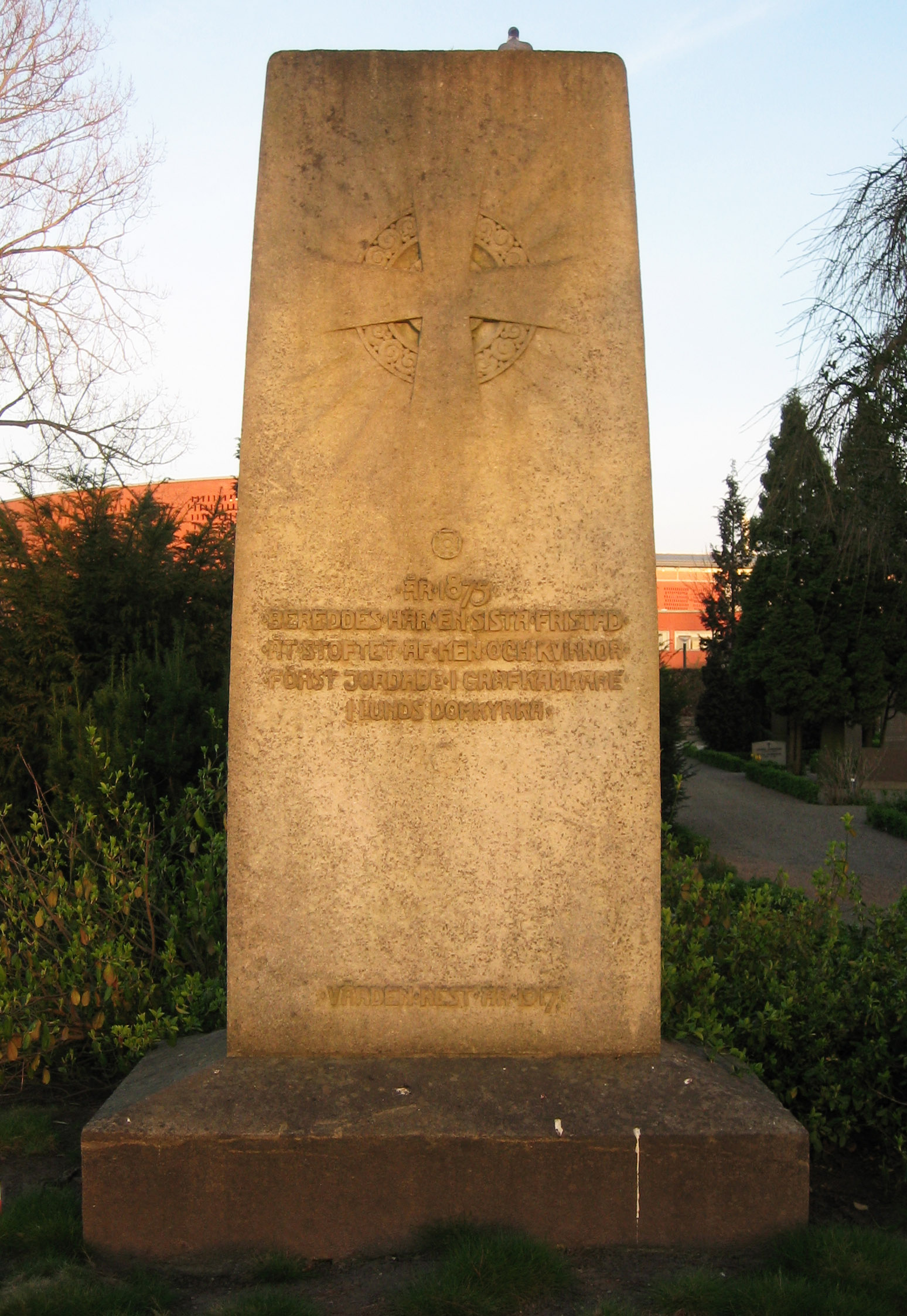 Monument over graves moved from Lunds domkyrka to Norra kyrkogården in Lund 1875. The persons that are put in a new grave here is Olof Celsius (1716-1794), bishop, Lars Johan Colling (1714-1786), professor, Ifvar Kraak (1708-1795), Johanna Maria Olsen (1710-1789), Wolff Hieron Kratzsk (1592-1657), Sophia Ramel (1606-1676), Lars Laurel (1705-1793), professor, Nils Caspar Liedbeck (1754-1799), Johan Hecander (1709-1789), professor, Magdalena Möller (1712-1790), Eberhard Rosenblad (1714-1796), Ulrica v. Hermansson (1724-1798), Anders Petter Stobaeus (1732-1799), professor, Ambrosius Westring (1692-1752), Rebecca Bergius (1725-1799), Erland Junbeck, Kirsten Barnekow (1622-1635), Margareta Wendel Melander (1746-1781), Elisa Scavenia (1625-1671), Christian Foss, professor, Sara Elisabeth Wallin (1728-1798), Anna Wallin (1742-1791).